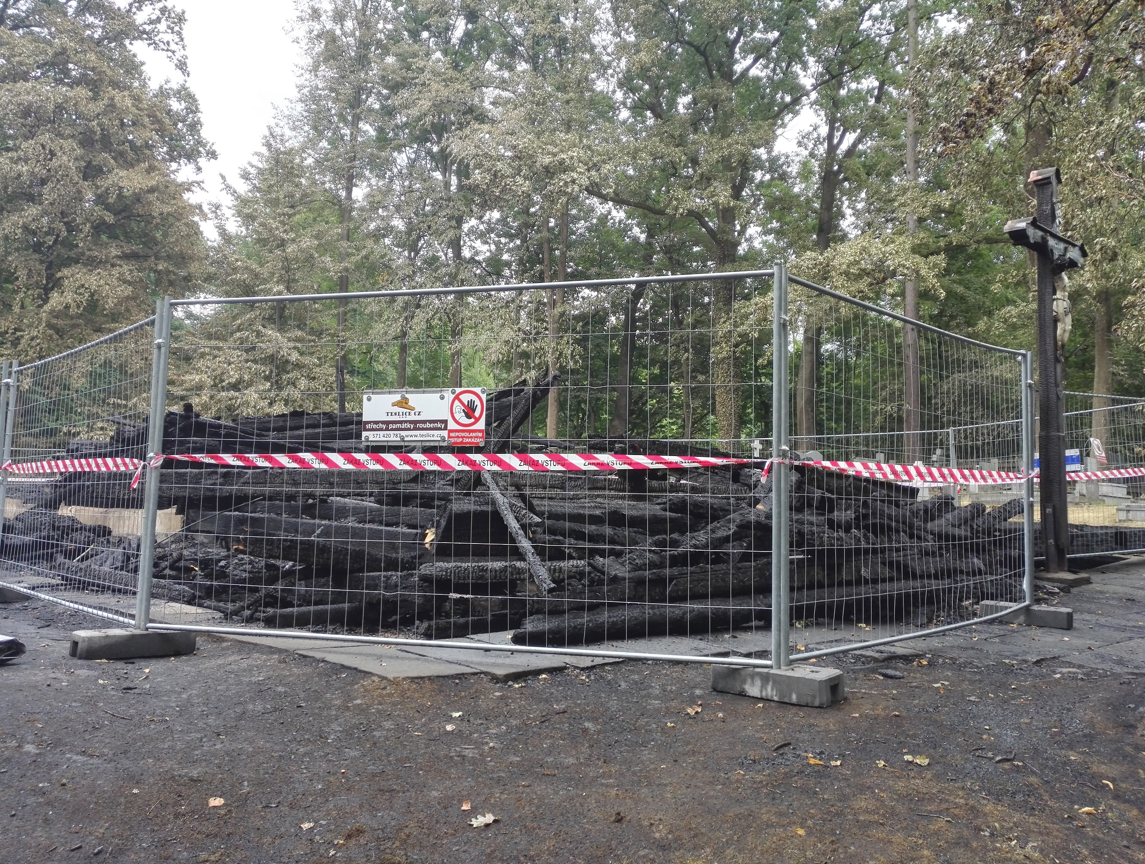 Corpus Christi Church in Třinec-Guty burned down